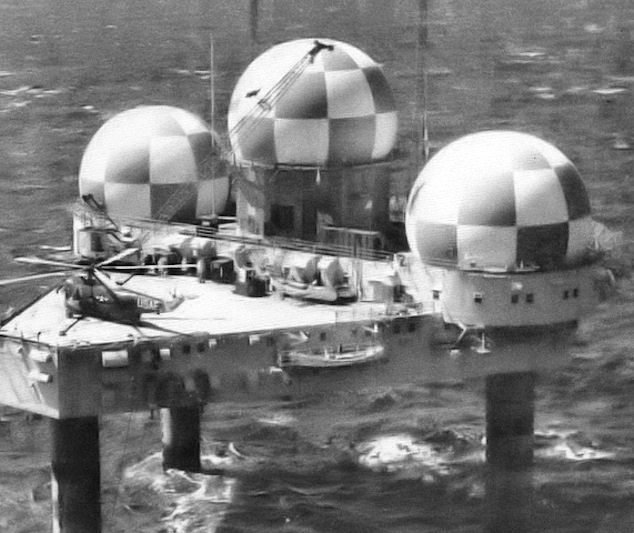 Photo of Texas Tower #3 (USAF photo)